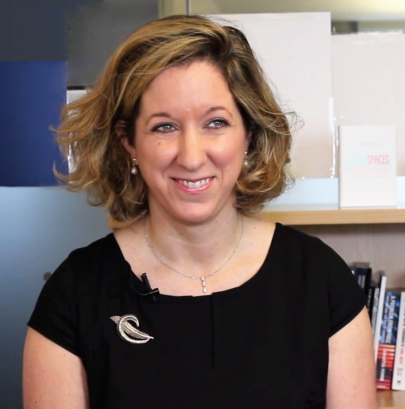 War Studies Insight: Dr Brooke Rogers on report by UK taskforce on extremism Dr Brooke Rogers is Senior Lecturer in Risk and Terror in the Department of War Studies, and a co-Director of the MA in Terrorism, Security and Society at King's College London. In this interview she shares her thoughts on the recent report by the UK task force on extremism.